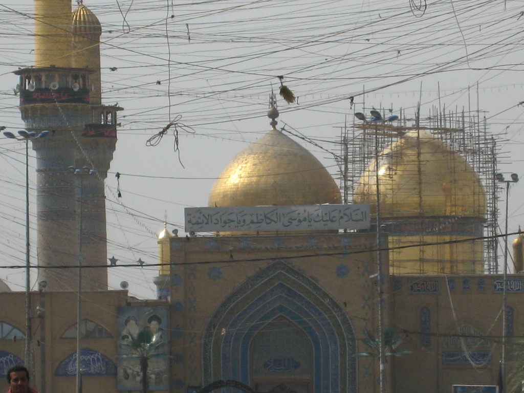 Repairs to the golden domes of Kadhimayn Mosque in 2008.(Shrine of the 7th and 9th Shia Imams: Musa al-Kadhim & Muhammad at-Taqi. [Baghdad, Iraq])